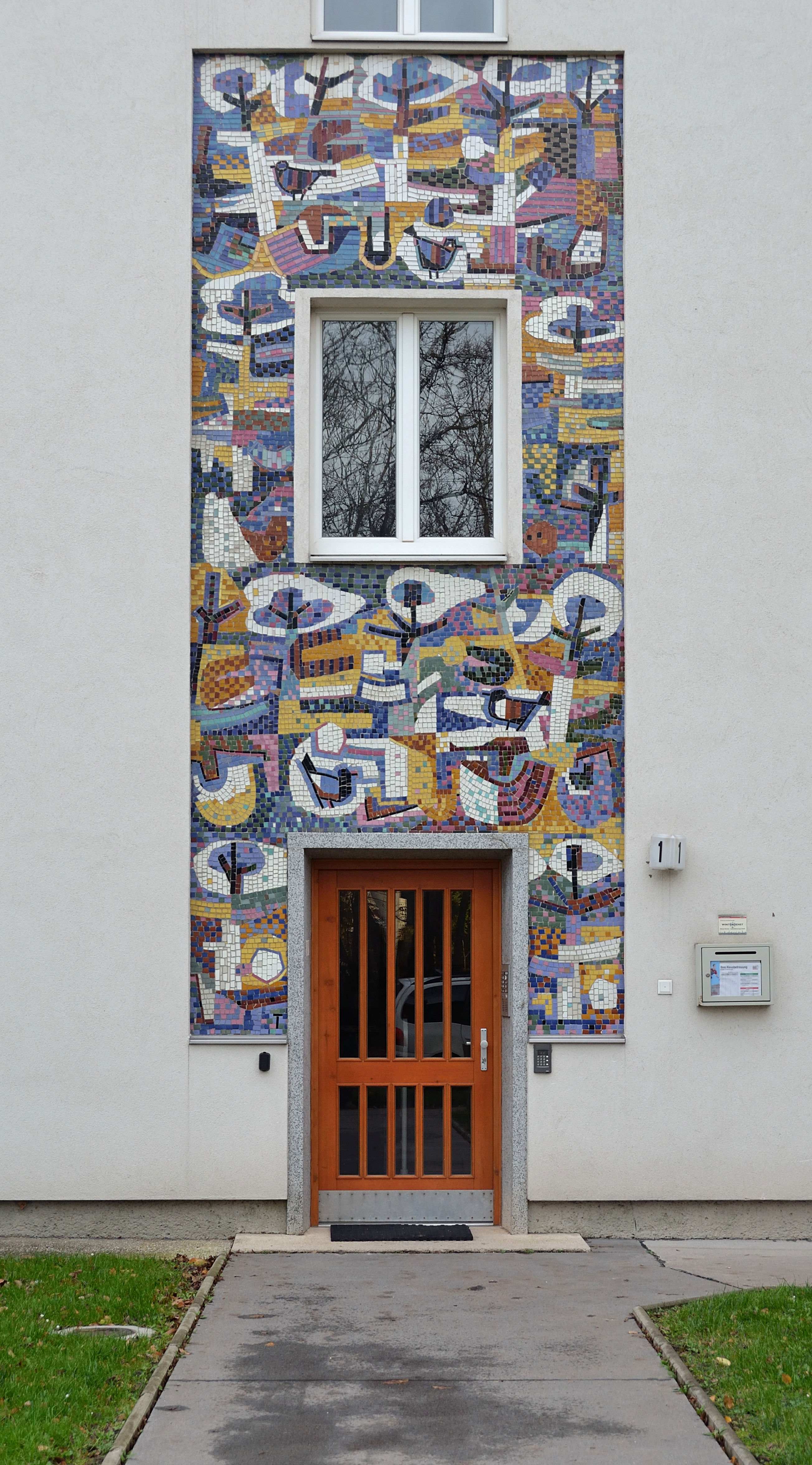 Mosaic "Wald" (forest) by Emil Toman, Schlöglgasse 71, Hetzendorf, Vienna